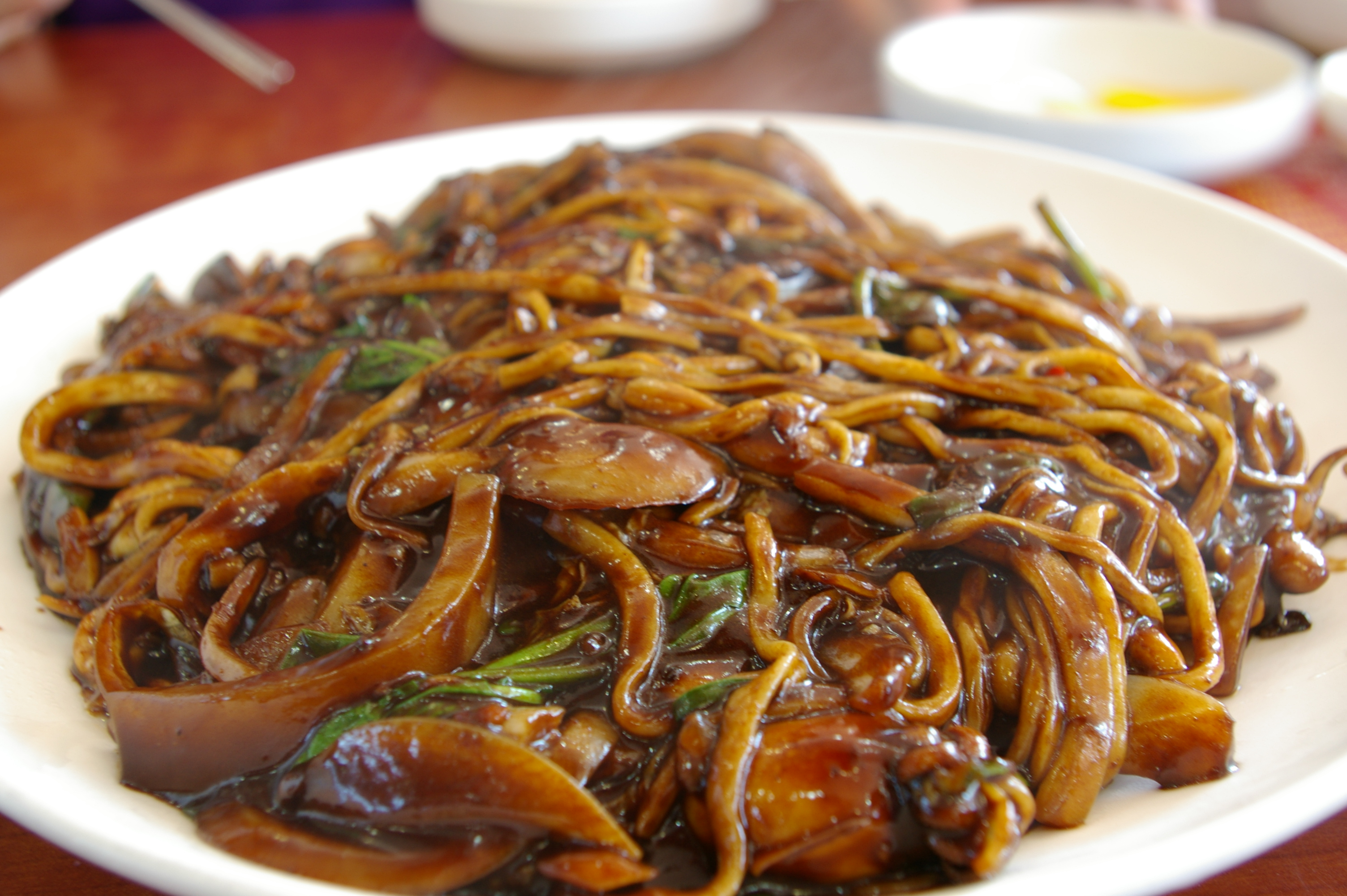 Jajangmyeon at a Korea-Chinese food restaurant, Gyeongju, South Korea.